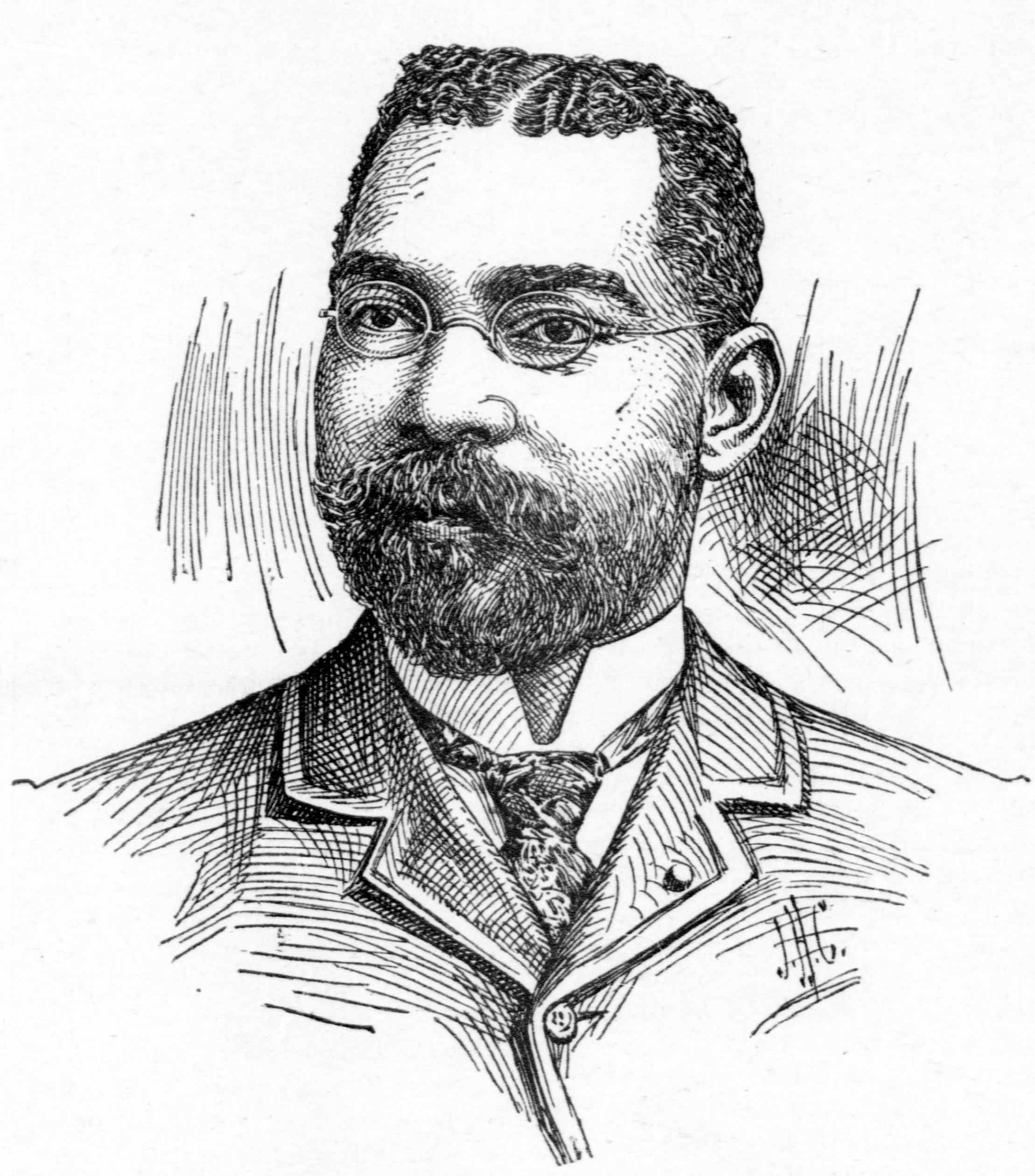 Henry Ossian Flipper, circa 1900